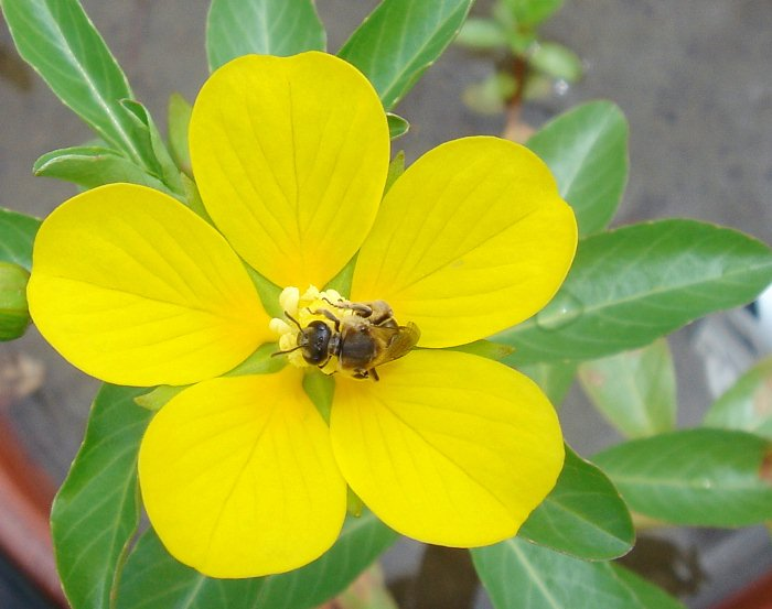 Flower of Ludwigia peploides subsp. stipulacea.Photo/picture taken in Kochi pref, Japan